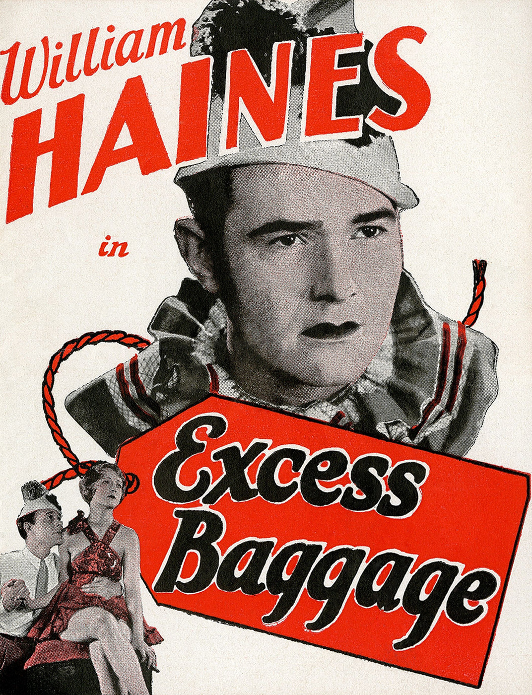 Film poster for the film Excess Baggage (1928).